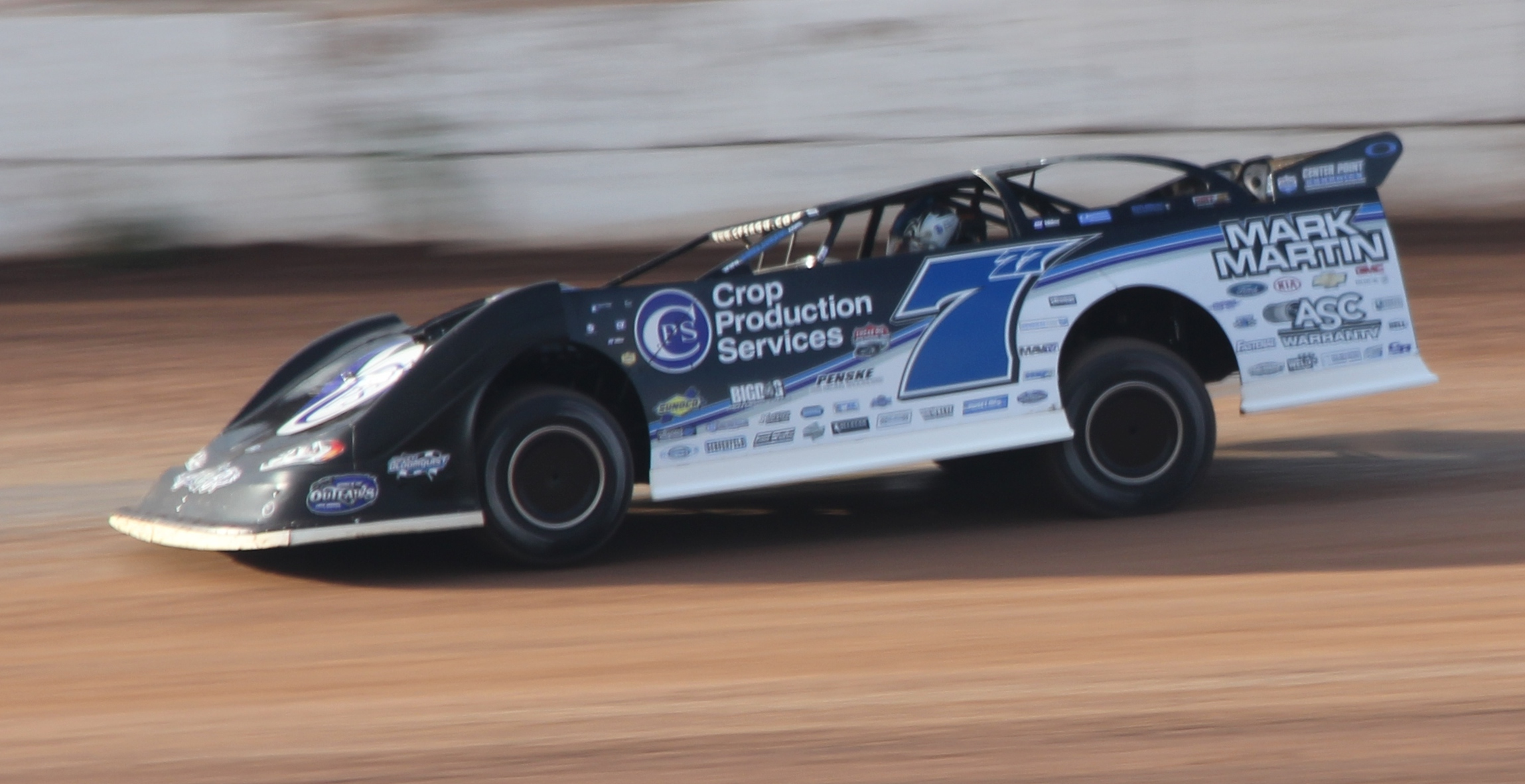 The Lucas Oil Late Model Dirt Series car of Jared Landers at the Oshkosh Speedzone dirt track at the Sunnyview Expo Center.